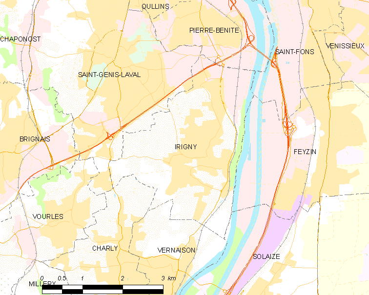 Map of French municipality